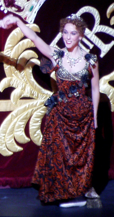 Laura Morera, Mayerling, Royal Ballet.